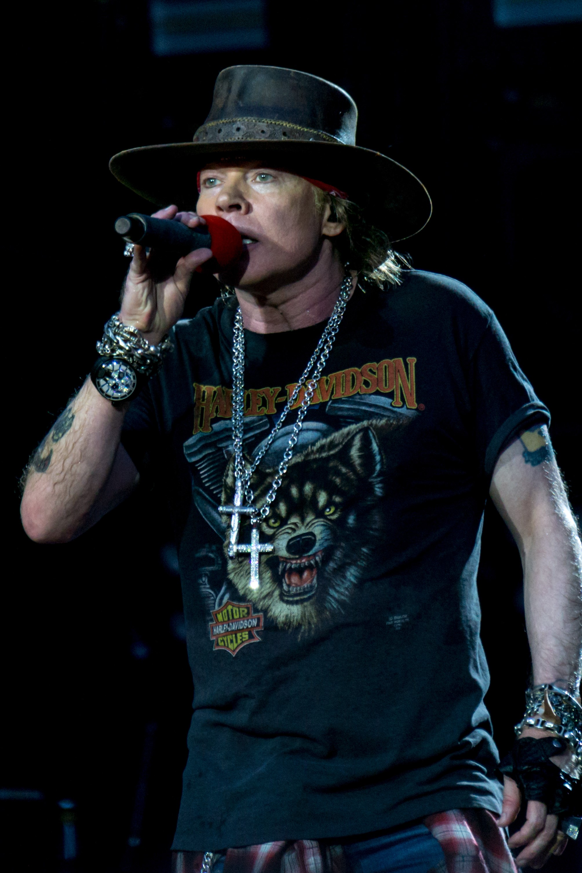 Guns N' Roses - London Stadium - Friday 16th June 2017